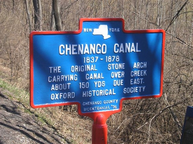 Historic marker of Chenango Canal stone arch at Oxford, NY